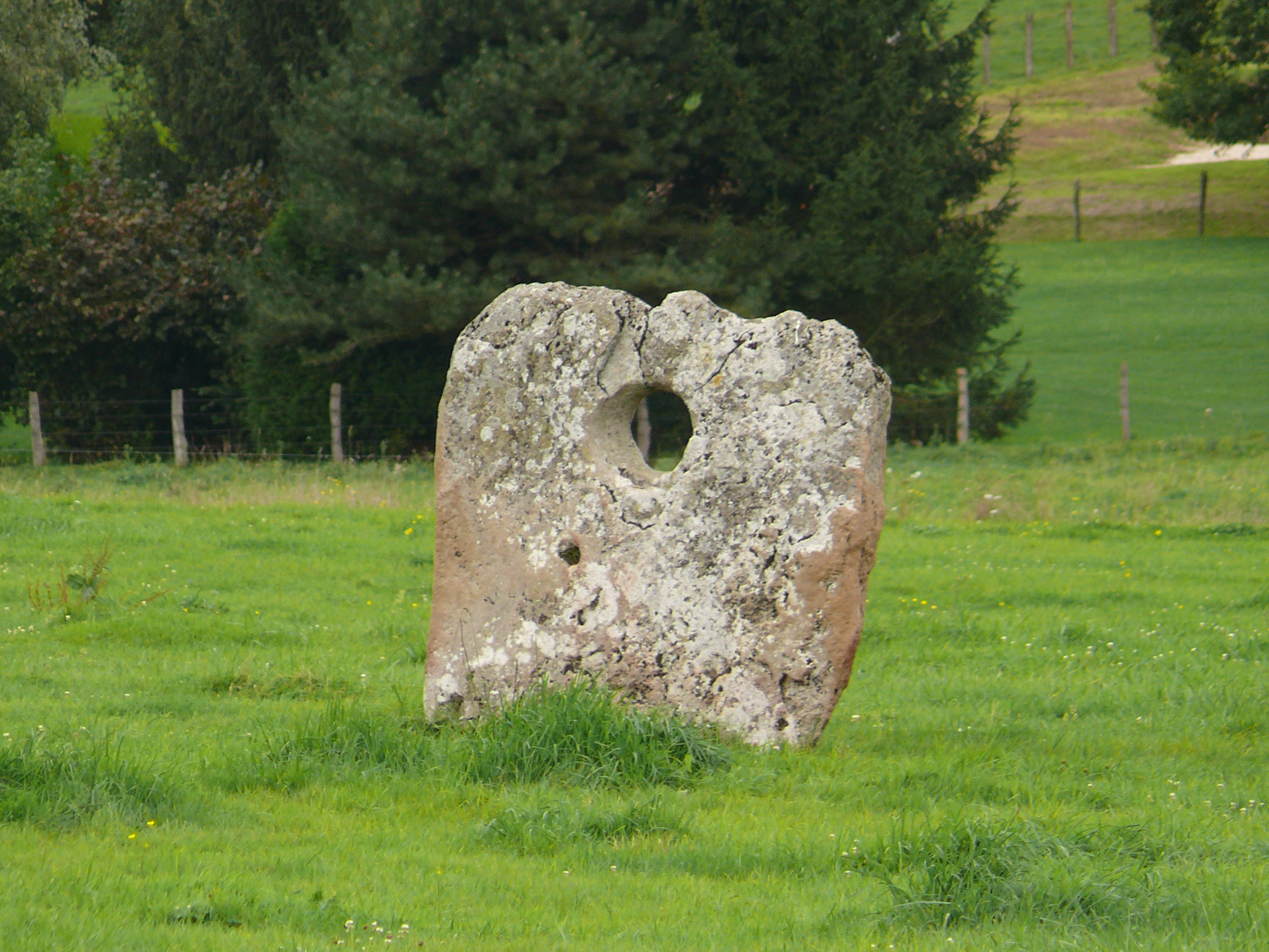 "Pierre percée" (ie "rock with a hole"). Remains of a dolmen in Aroz (Haute-Saône, France)